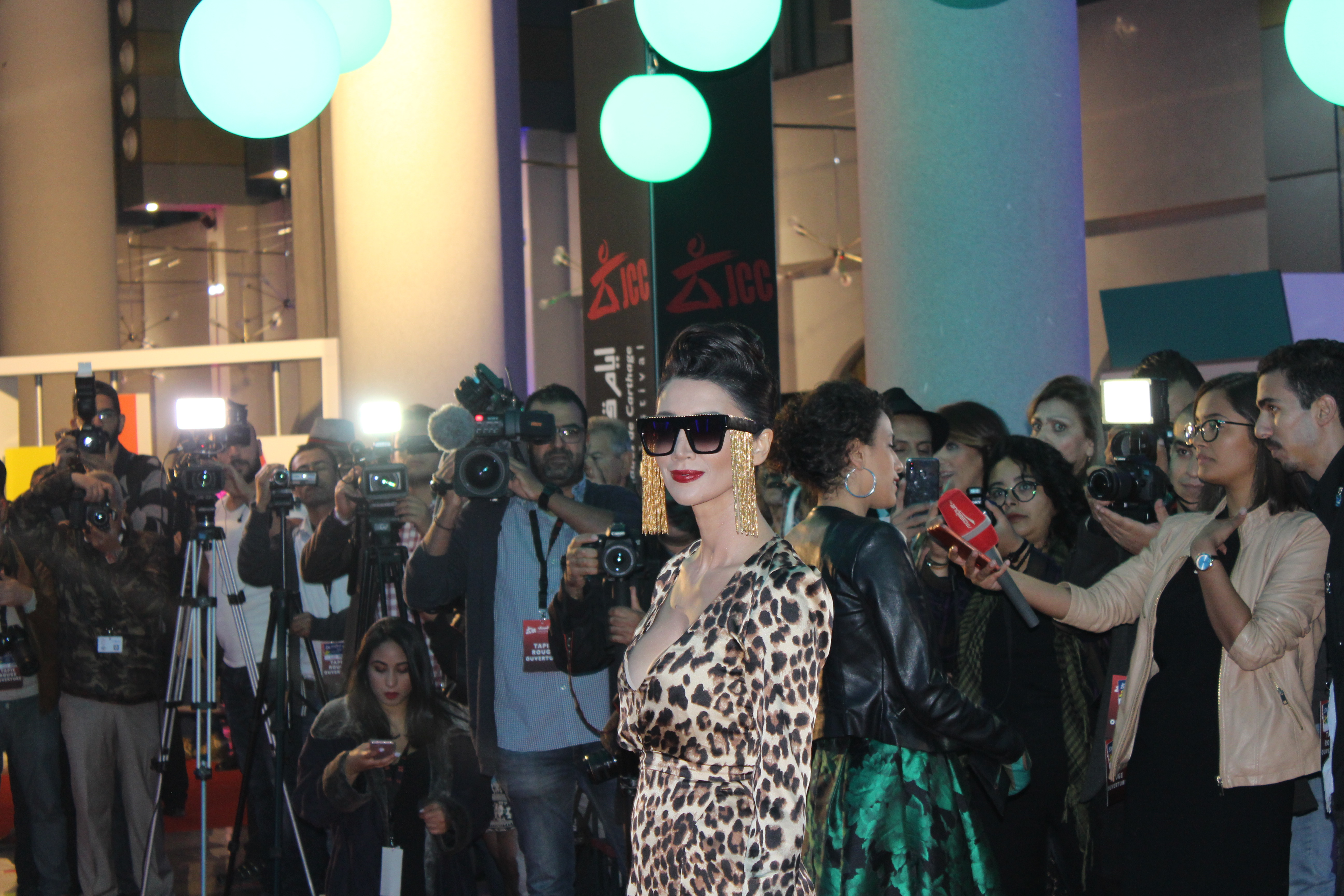 Carthage film festival 2018